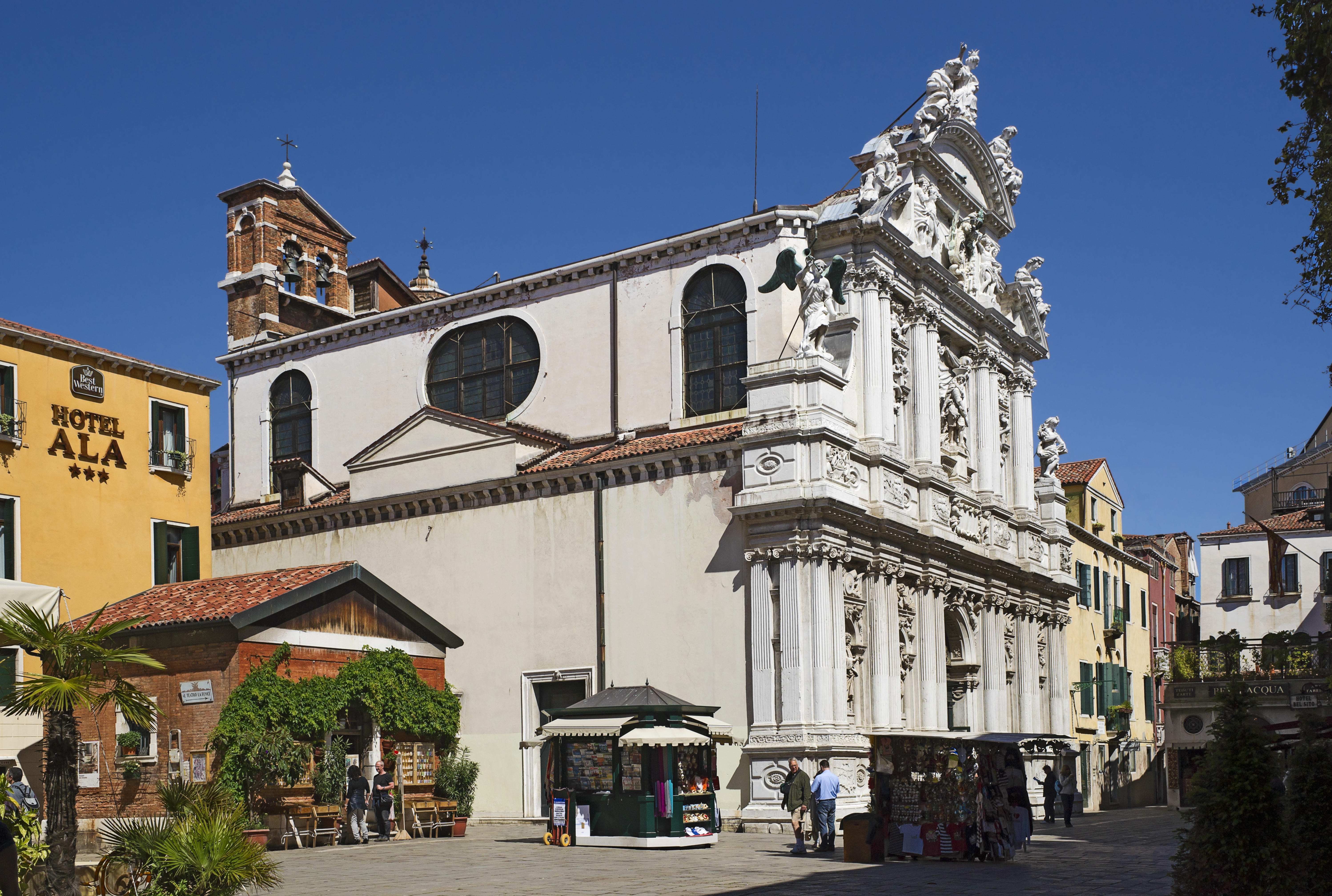 Church Santa Maria del Giglio in Venice on Campo Santa Maria Zobenigo.